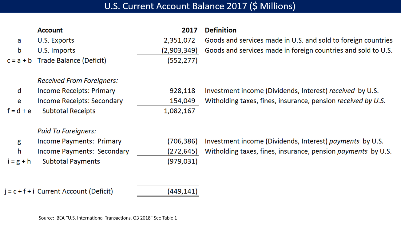 US current account calculation for 2017. It shows the trade balance (exports minus imports) and the financial flows. Overall, the current account balance is U.S. monetary inflows minus outflows. U.S. inflows include receipts for: exports, investment income, and transfers. U.S. outflows include payments for: imports, investment income due to foreigners, and transfers to foreigners.